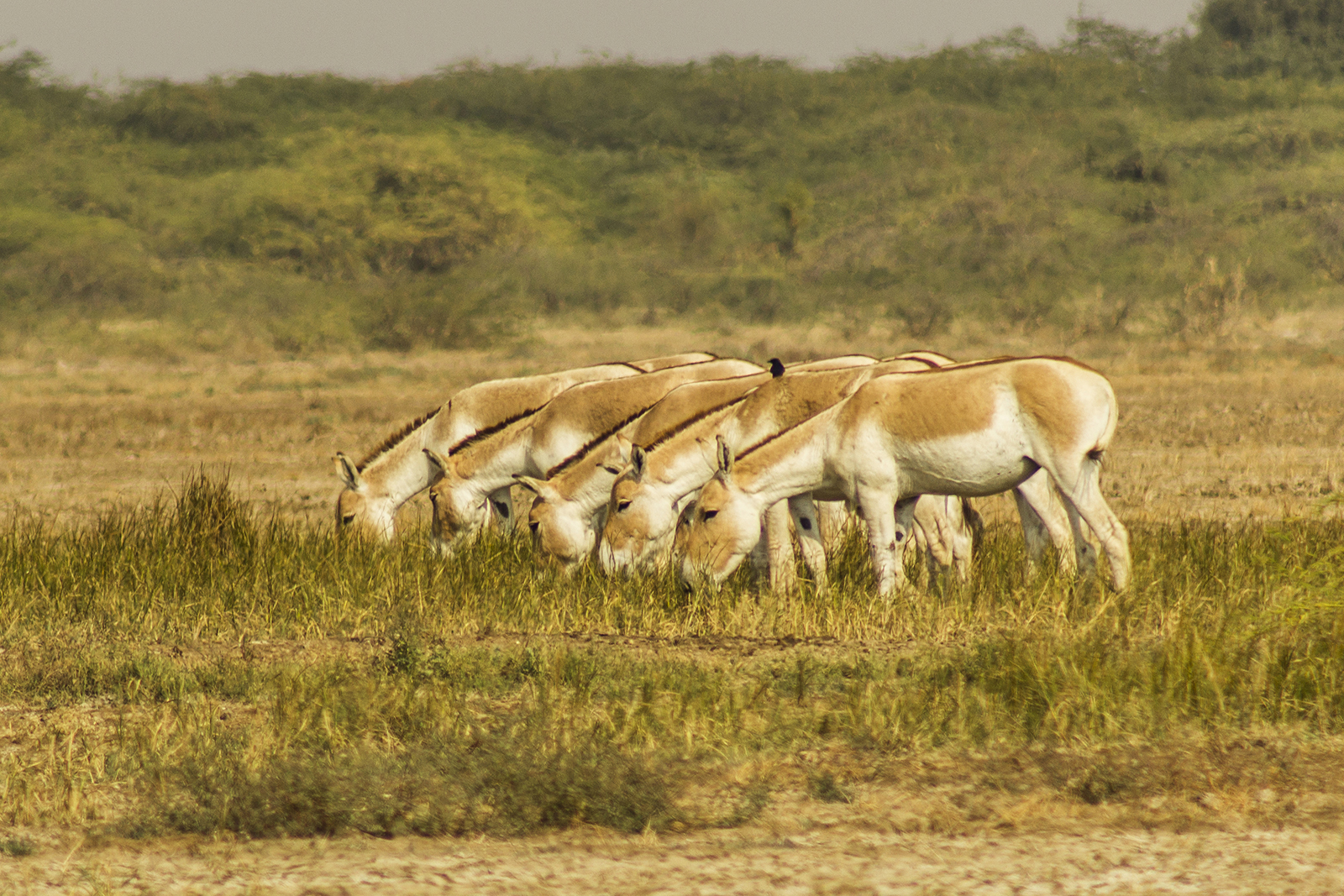 Indian Wild Ass herd having meal together in Little Rann of Kutch.